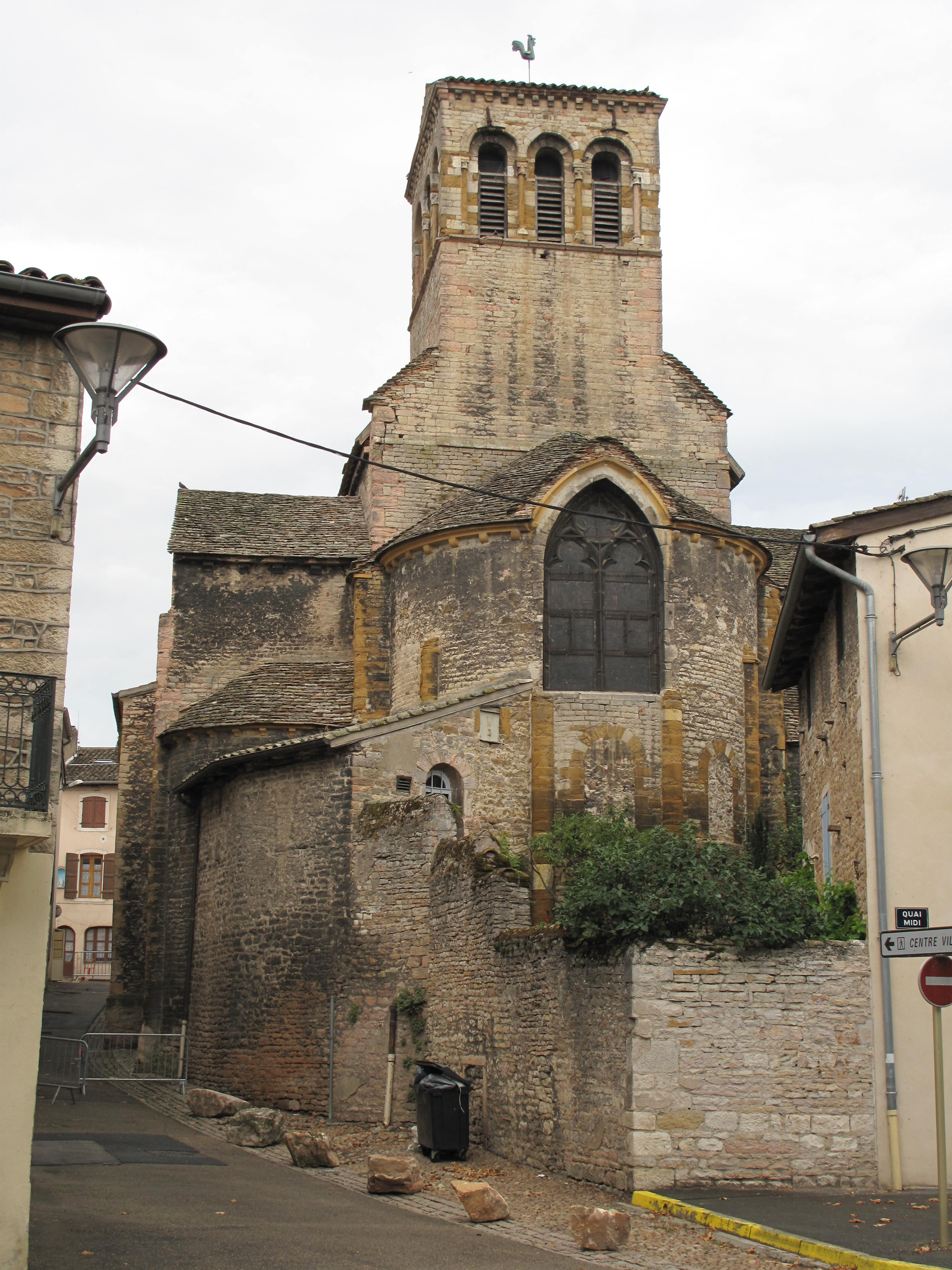 Apse of the church Sainte-Madeleine in Tournus, Saône-et-Loire, France